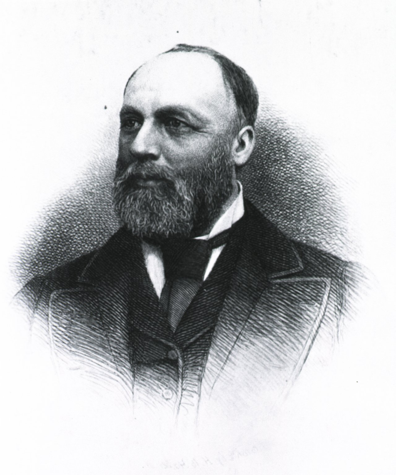 William Alexander Hammond, engraving by H. B. Hall